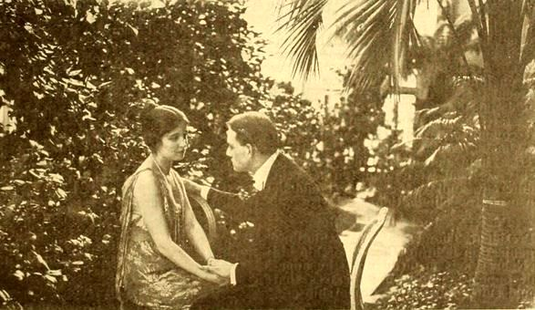 Still from the American film The Lion and the Mouse (1919) with Alice Joyce and an unidentified actor, on page 1181 of the March 1, 1919 Moving Picture World.